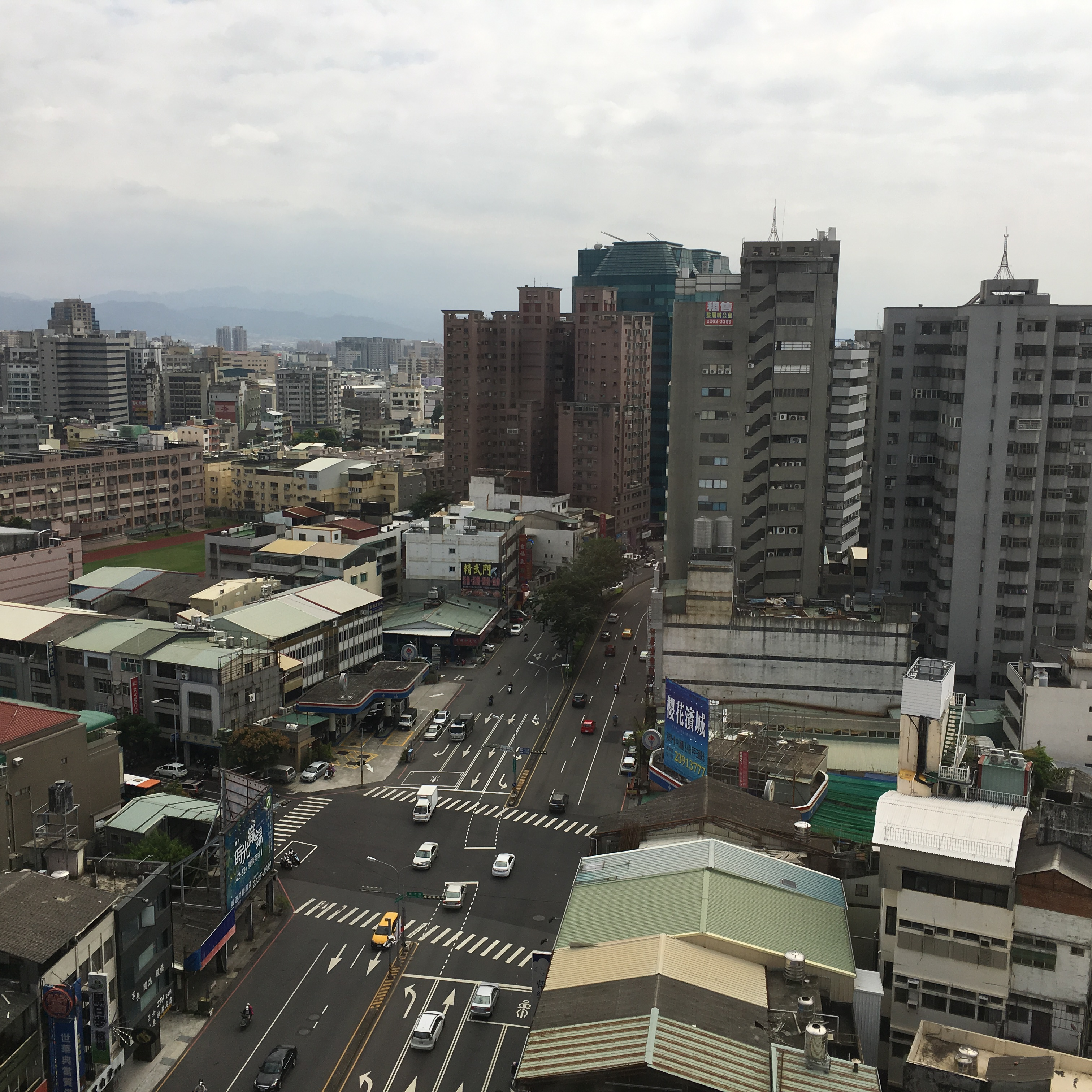 Intersection of Section 1, Zhongqing Road and Yingcai Road in North District, Taichung, Taiwan